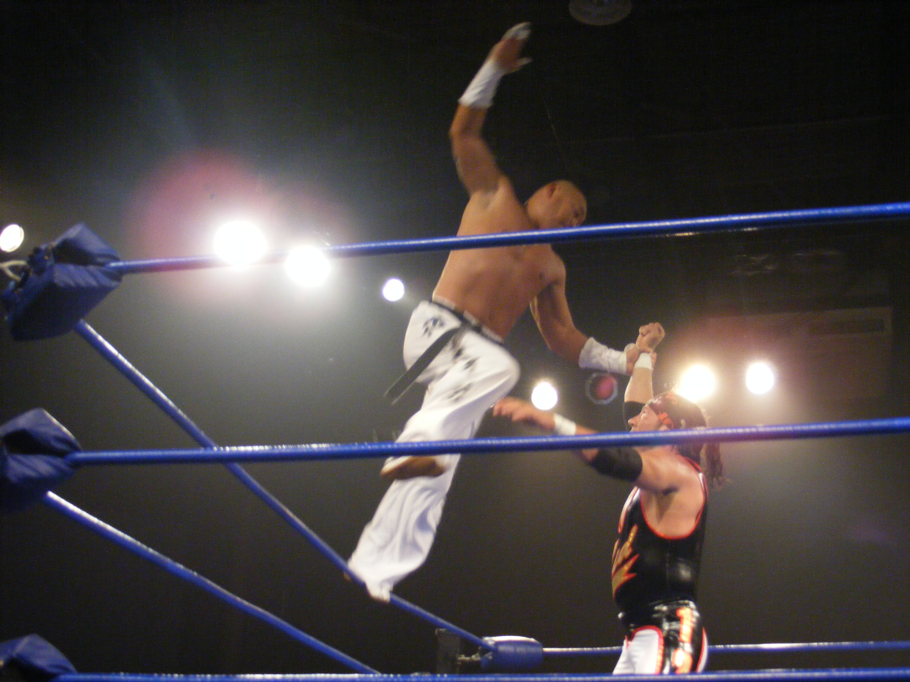 Professional wrestler Jinsei Shinzaki performing a ropewalk chop on the 1-2-3 Kid in April 2011.